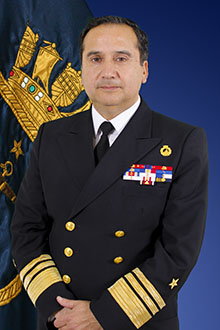 Official photo of Cristián de la Maza Riquelme as Vice Admiral of the Chilean Navy